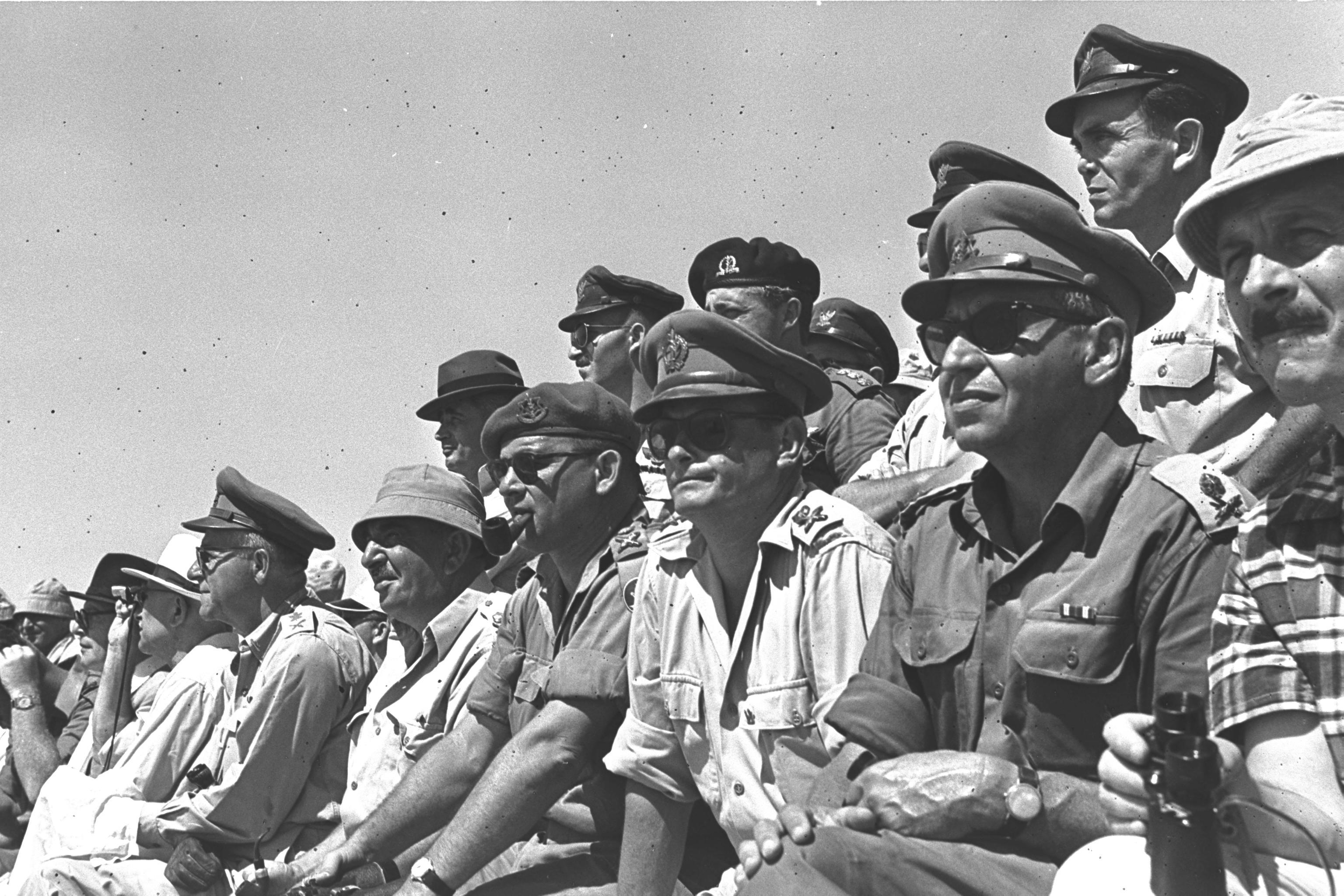 General of the IDF observing maneuvers, 1960